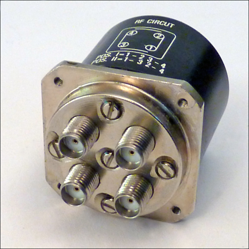 antenna relay